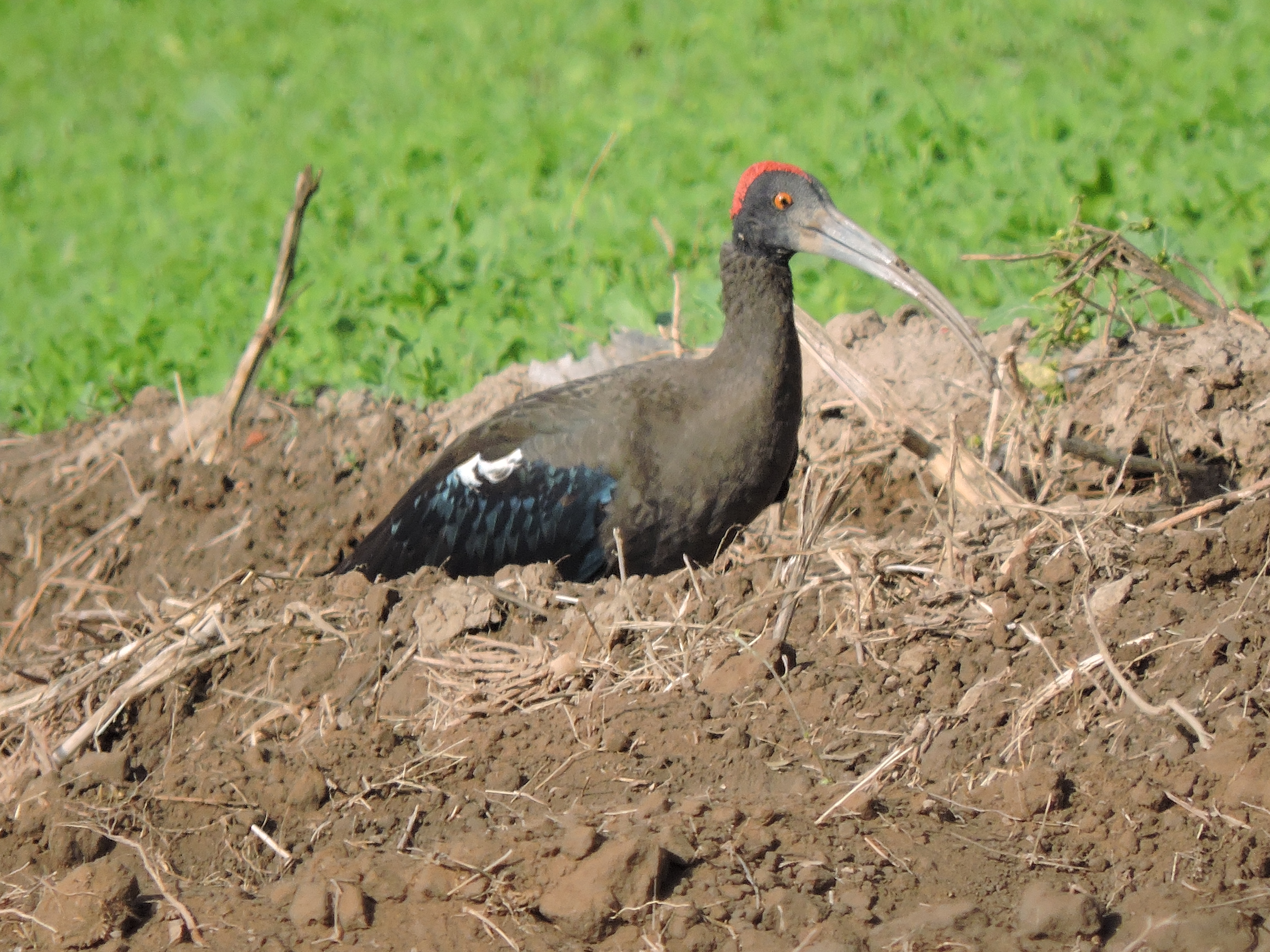 Ibis, village Behlolpur, District Mohali, Punjab ,India